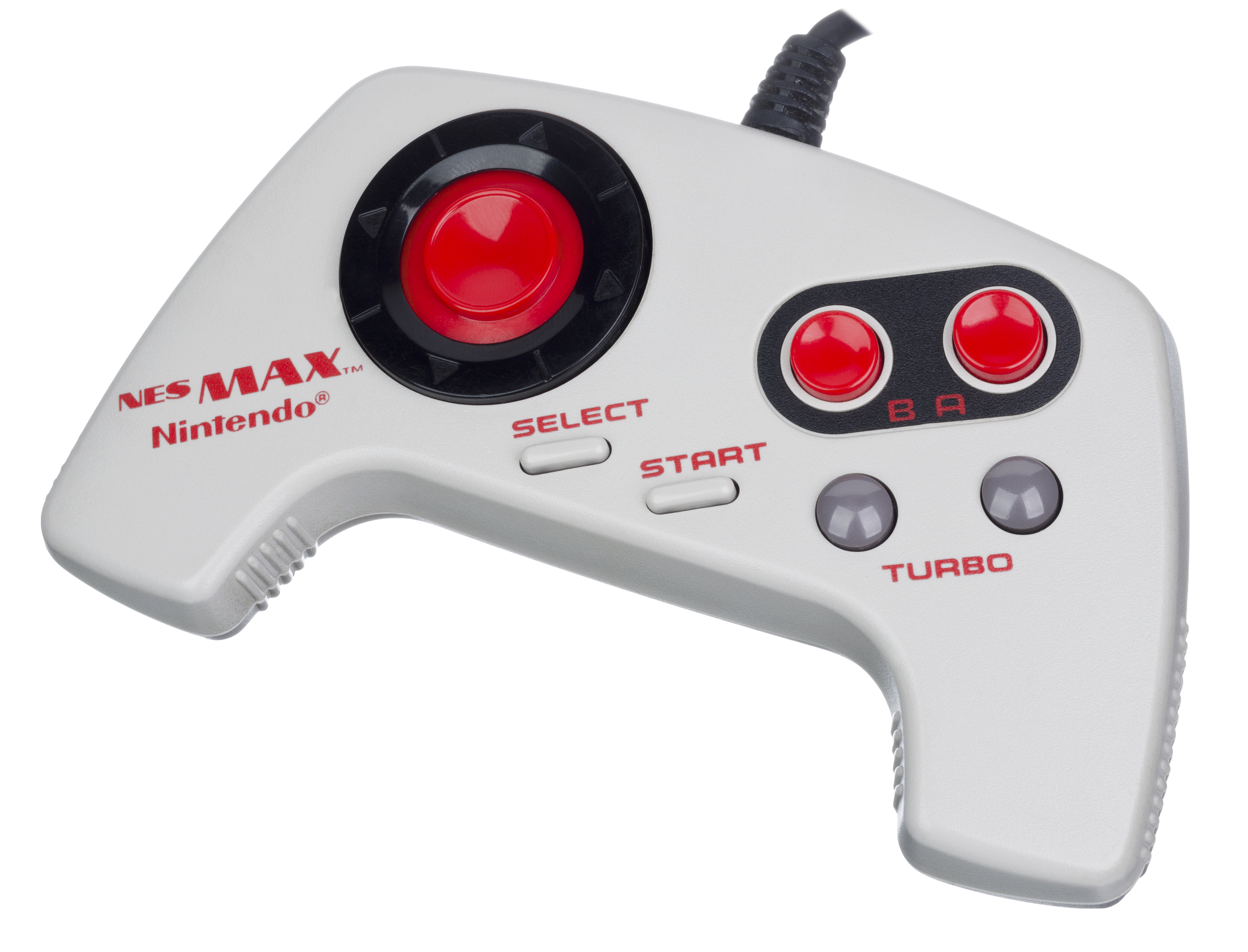 An NES Max controller for the Nintendo Entertainment System. This official Nintendo controller features a slide-disk D-Pad and turbo buttons. It is also one of the only alternate controllers officially produced by Nintendo.